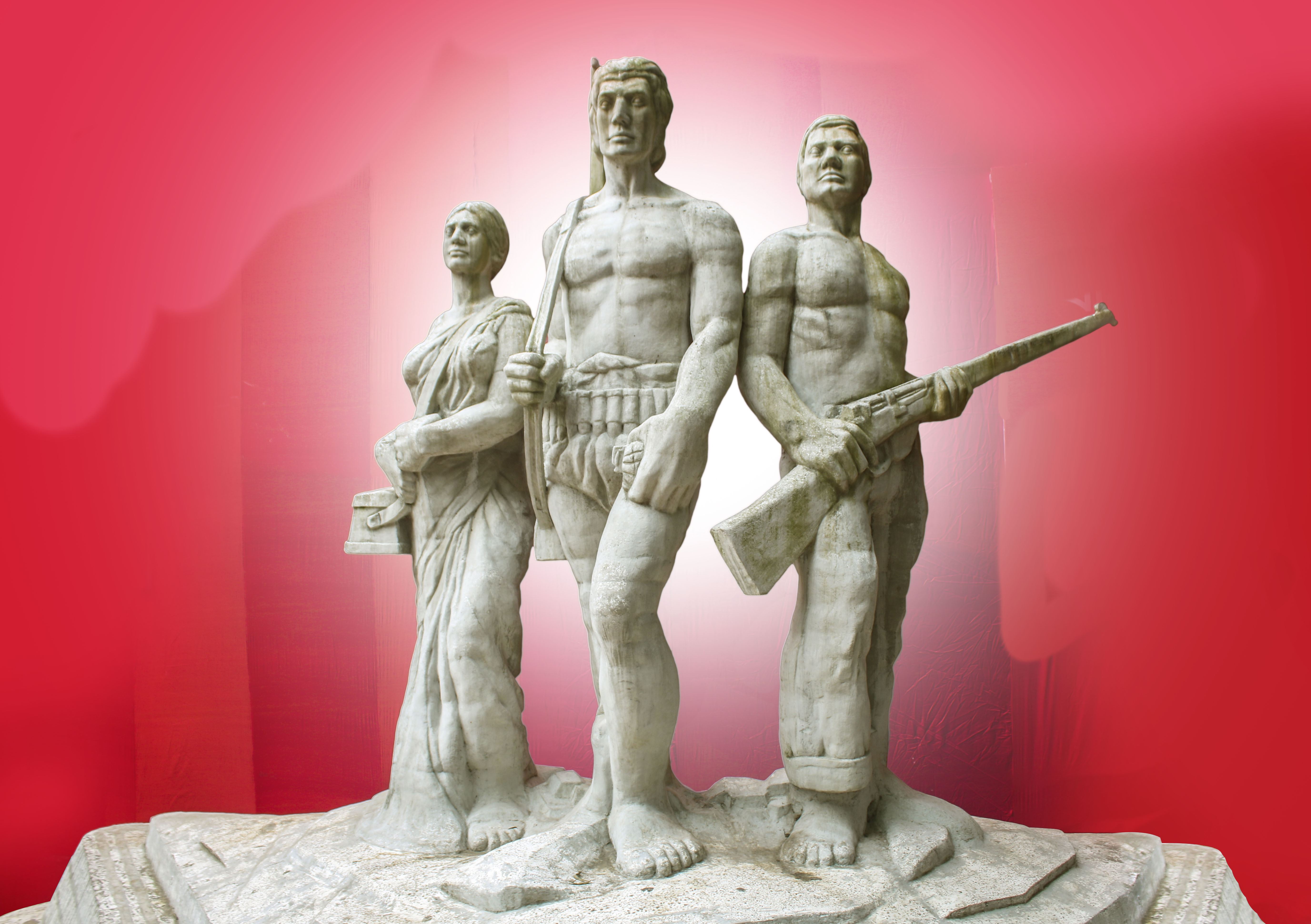 Aparajeyo Bangla is one of the most well known sculptures dedicated to the Bangladesh Liberation War in 1971 by Artist Syed Abdullah Khalid.